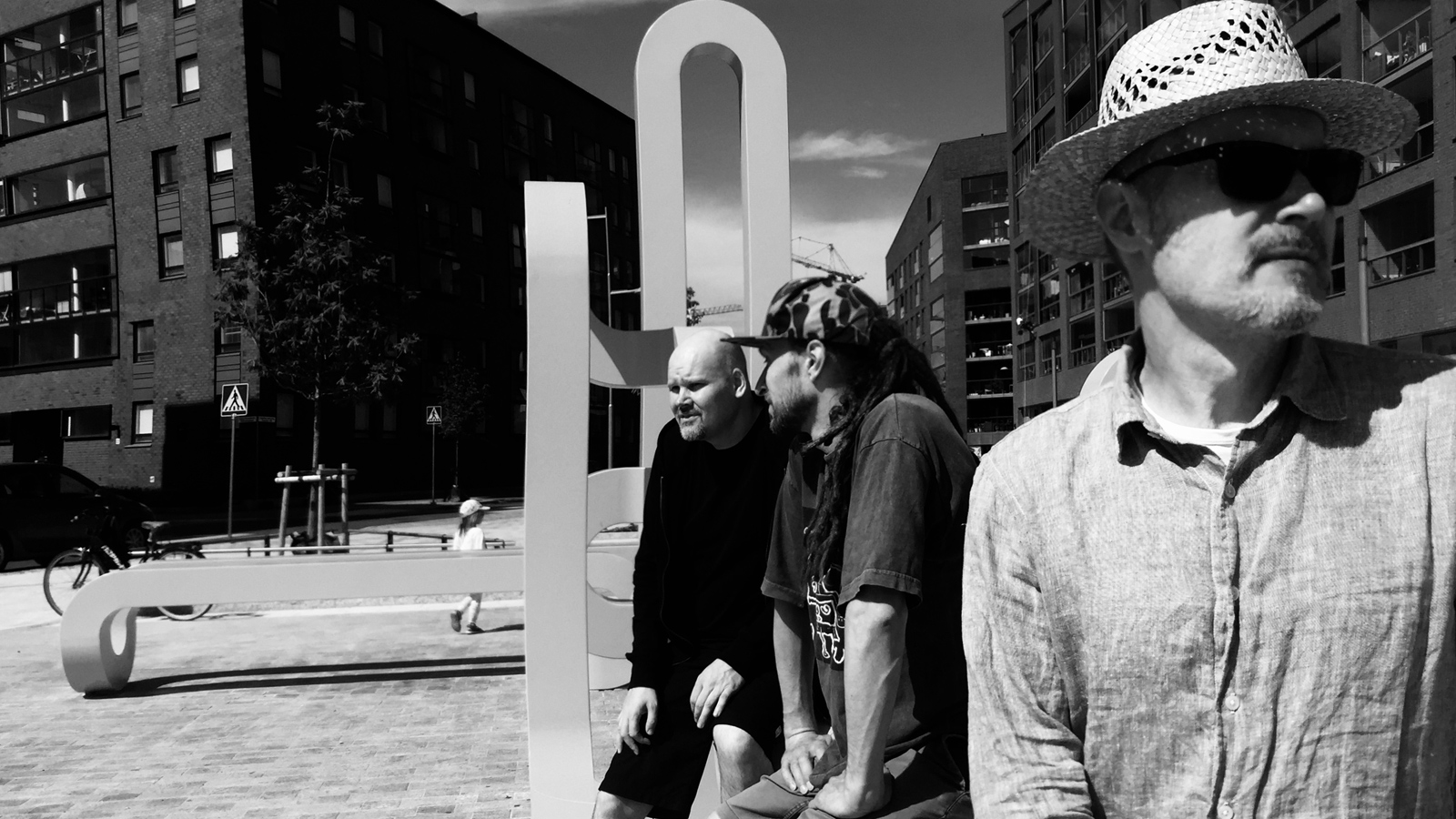 Official promo photo of RinneRadio